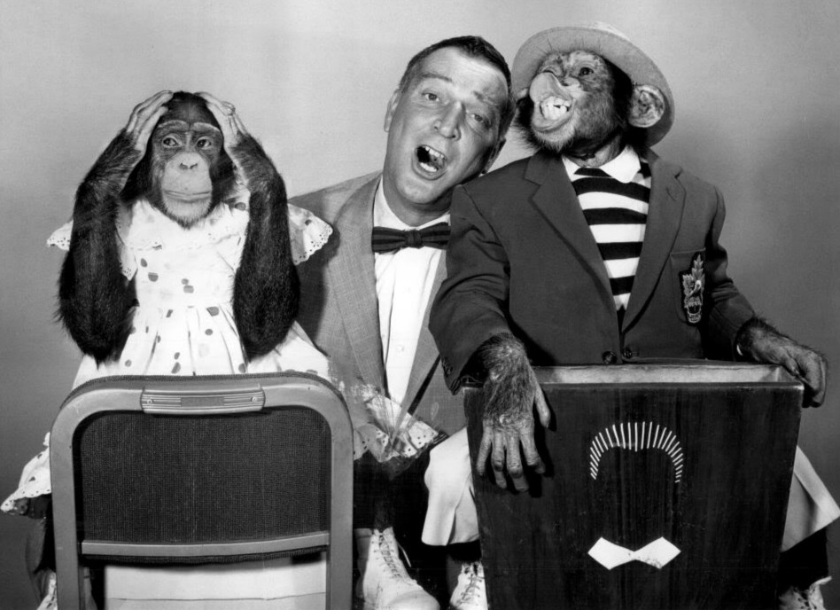 Publicity photo of Garry Moore with his guests, the Marquis Chimps, from The Garry Moore Show.